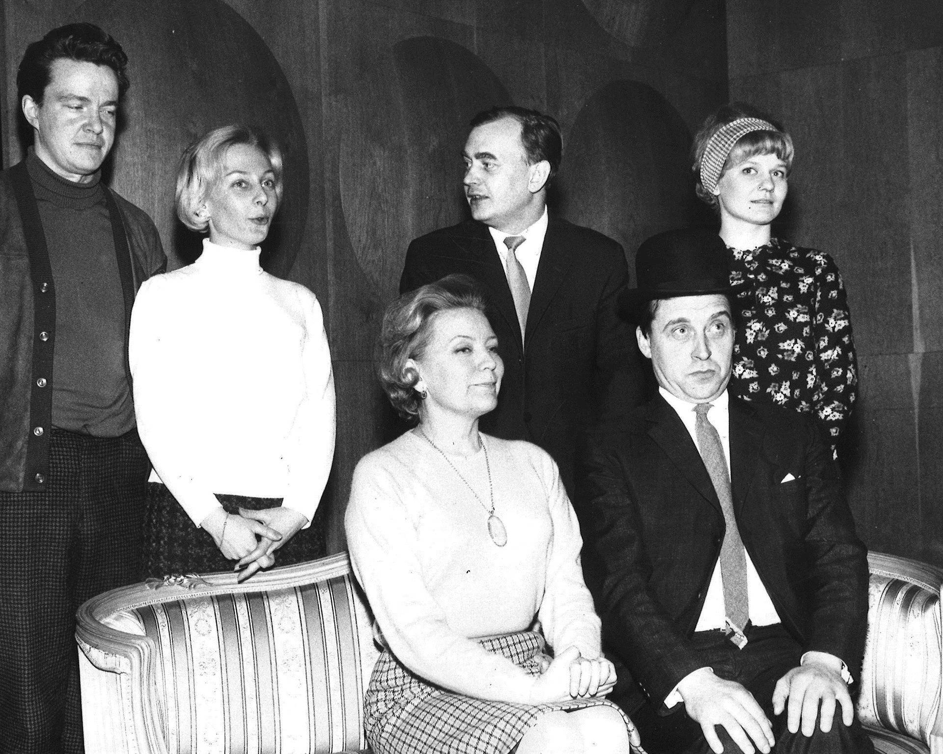 Photograph of the Finnish writer Pekka Lounela (1932–2002), standing (third from the left) with actors of Intimiteatteri. Also Seela Sella (2nd from the left), Maippi Heljo (sitting on the left).